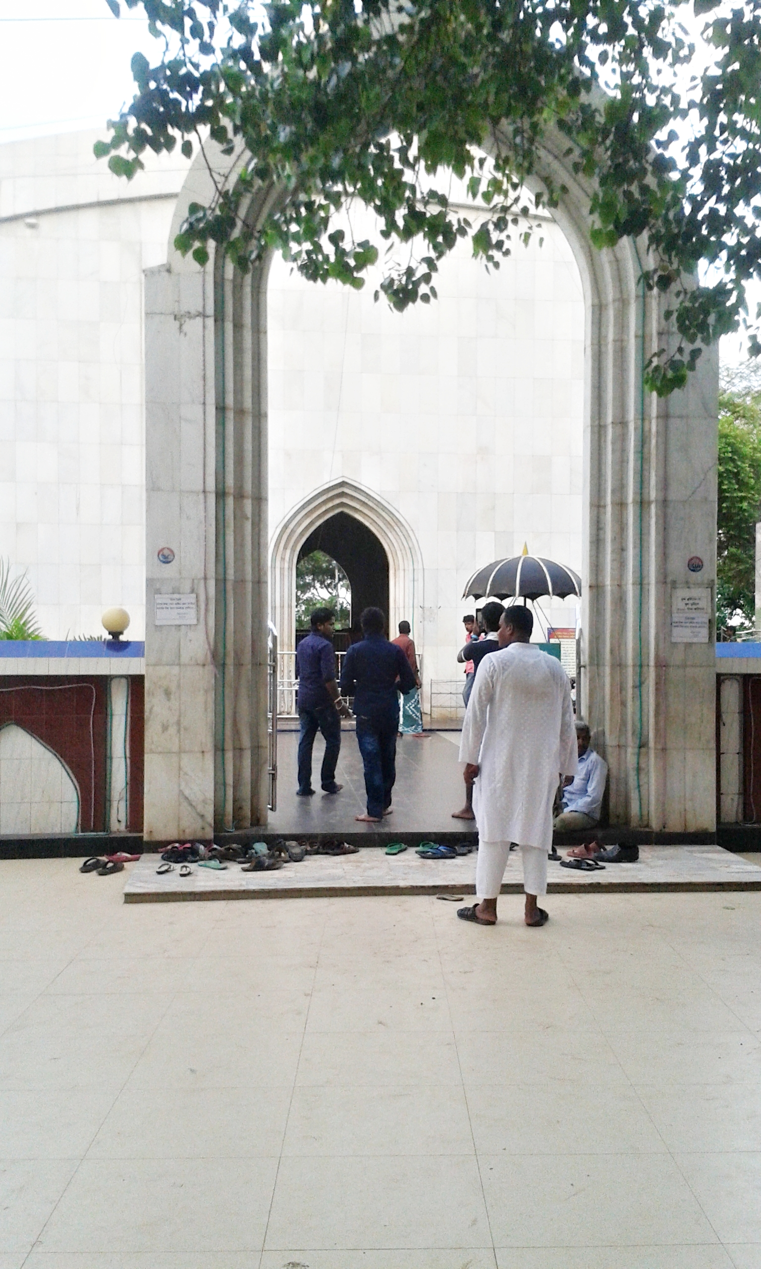 Shah Sultan Balkhi Mahisawar was a 14th-century Muslim saint. He preached Islam in Pundravardhana (present-day Bogra District).